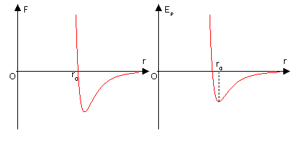 The graph of intermolecular force and potential energy.